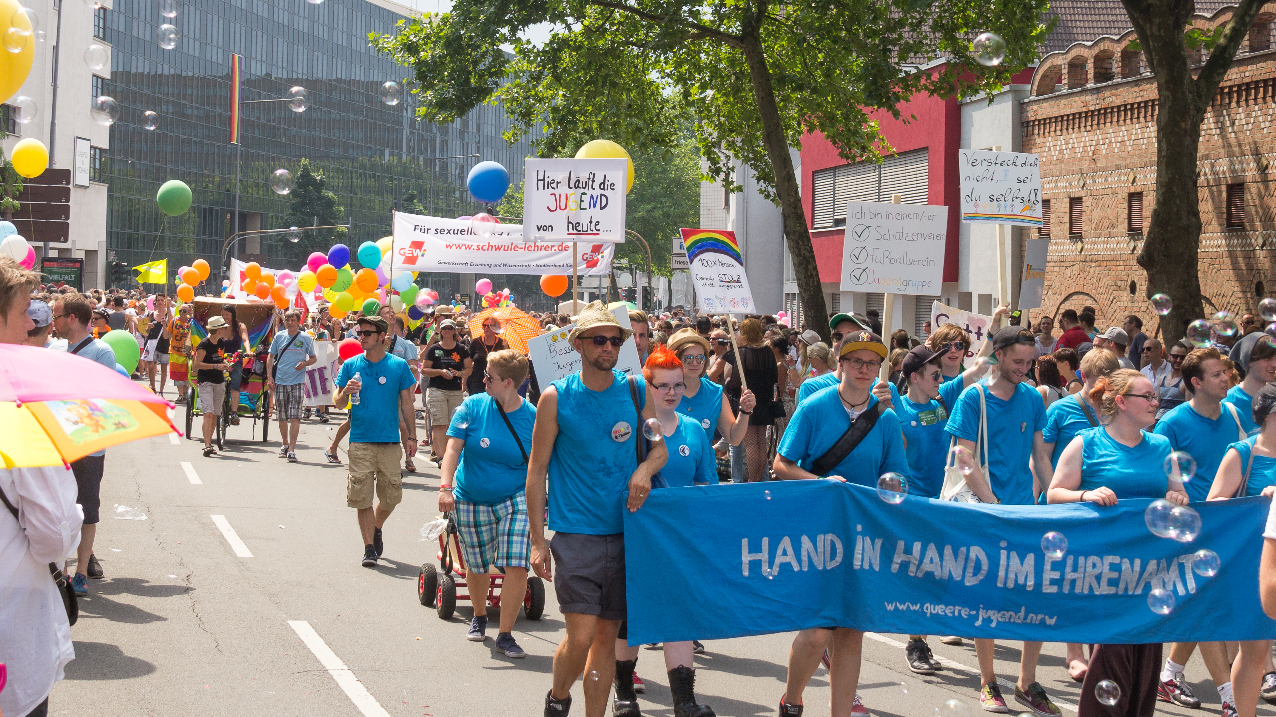 Participants of the ColognePride demonstration, Christopher Street Day Parade 2015 (CSD)